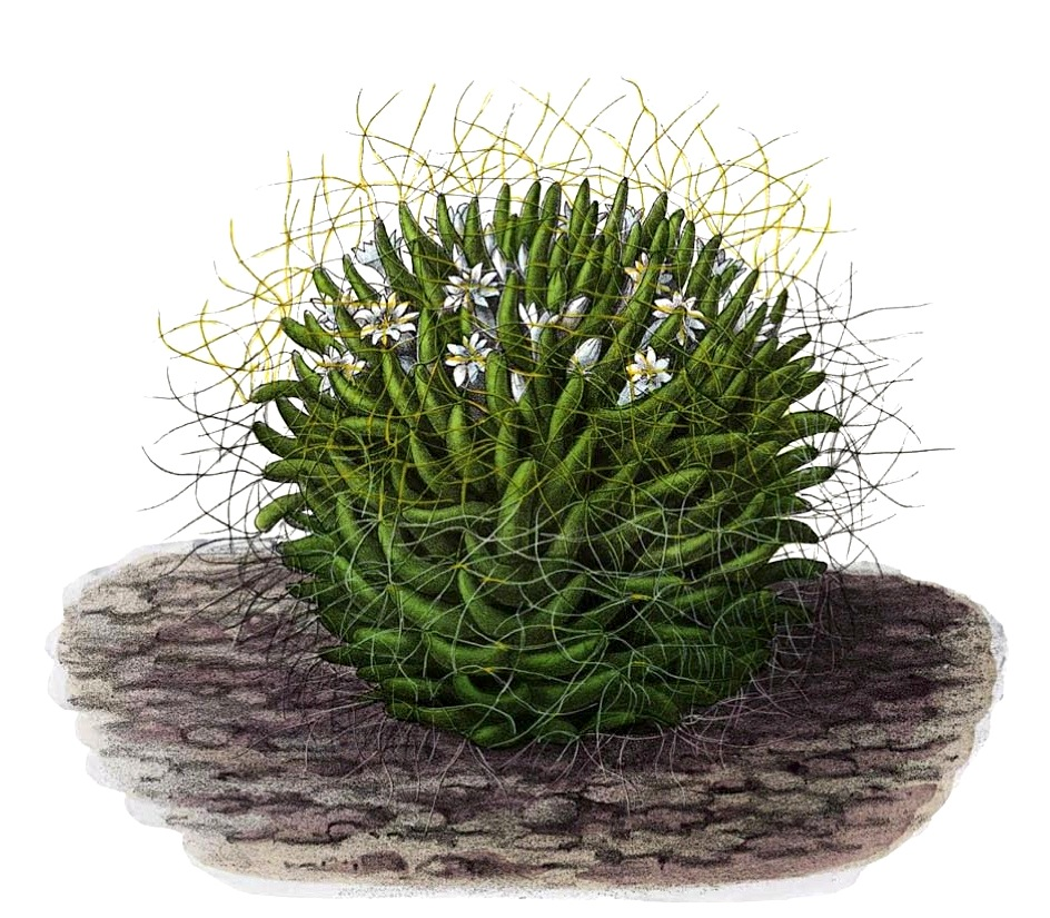 Mammillaria decipiens